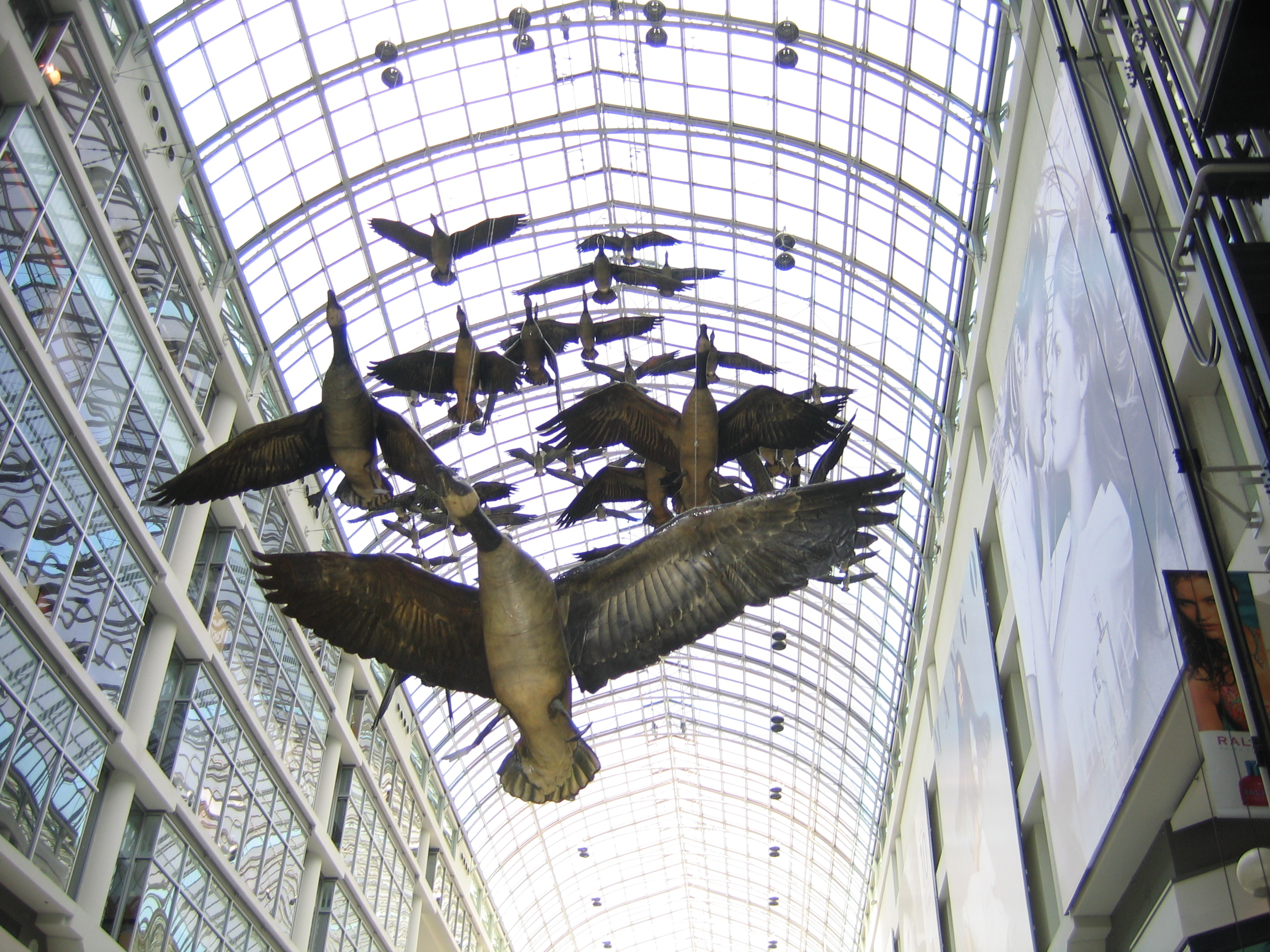 Toronto Eaton Centre, Toronto, Canada Originally these birds were hung in two rows, several hundred yards, the length of the portion of the Eaton's centre that had the skylight from Shuter (originally Shuter was the Southern end of the Centre...) to the Eaton's store. At the south end several birds formed a "V", so the sculpture emulated the "V" shape of migrating geese. Originally the Centre's management was very proud of this sculpture. But after a decade or so the sculpture was largely forgotten, hanging about a dozen feet from the very high ceiling. And, at Christmas time, those responsible for the extensive Christmas decorations obscured the birds with Christmas decorations. The artist sued.